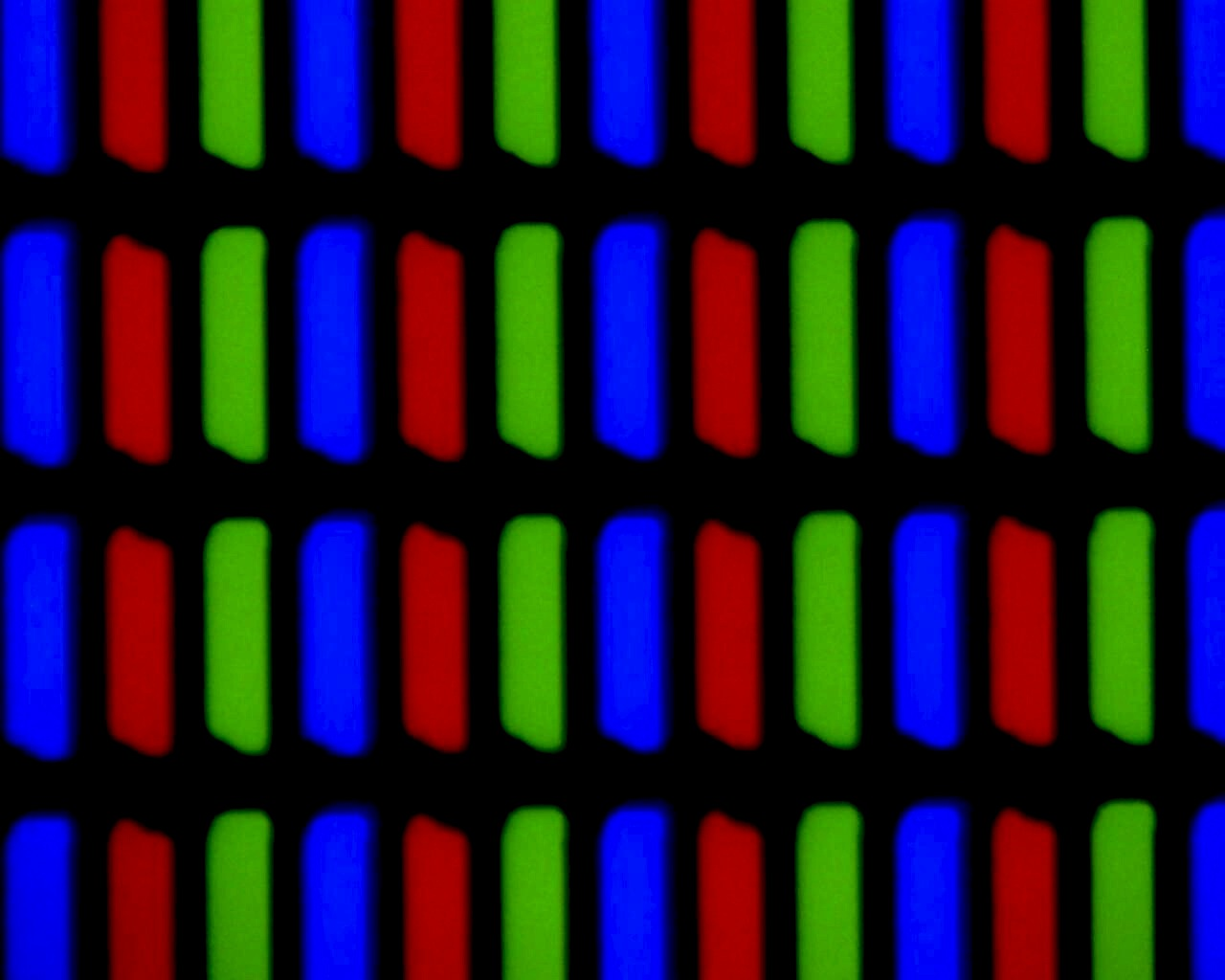 Close-up image of TN panel display, Dell Mini 9, Magnification - 300